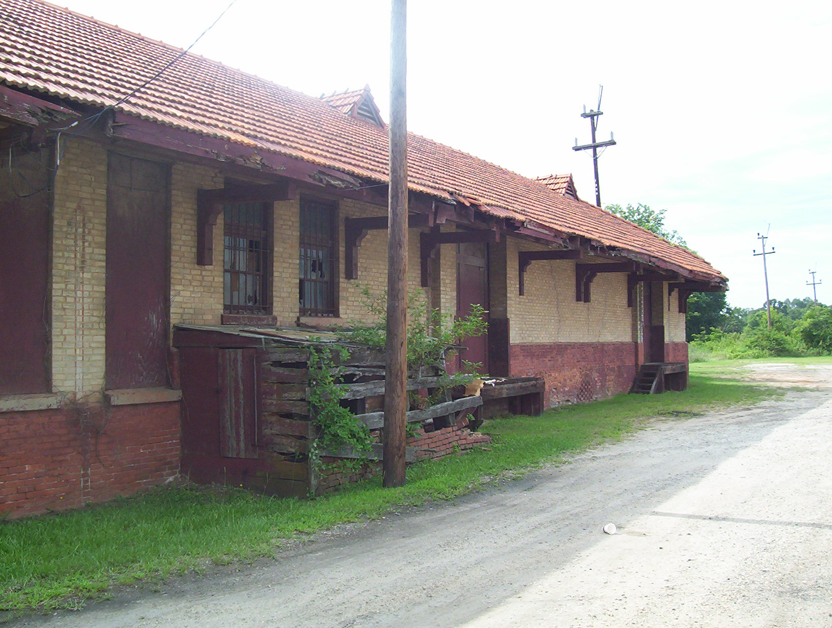 Former Piedmont and Northern Railway depot in Piedmont, South Carolina. Photo by Frank Valoczy, taken 20 July 2007.